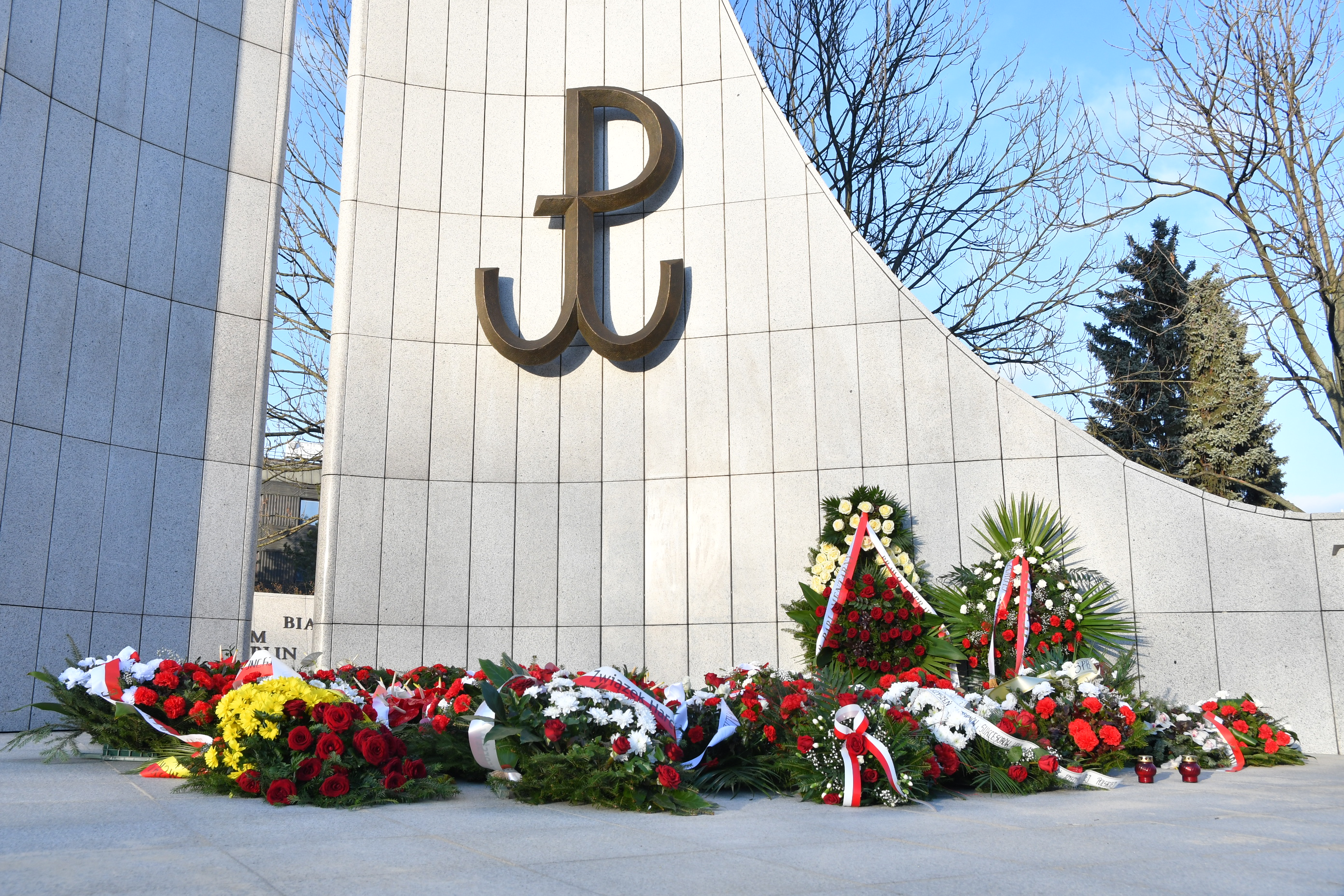 Celebration of the 77th anniversary of the Home Army. Warsaw. Poland. Monument of the Polish Underground State and the Home Army.